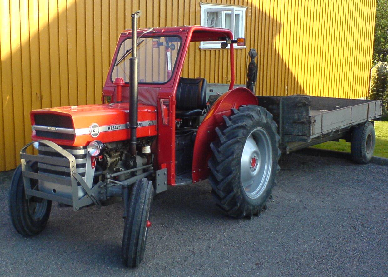 Massey Ferguson 135 tractor with ROPS/roll bar/cabin produced by the Eikmaskin company in Norway